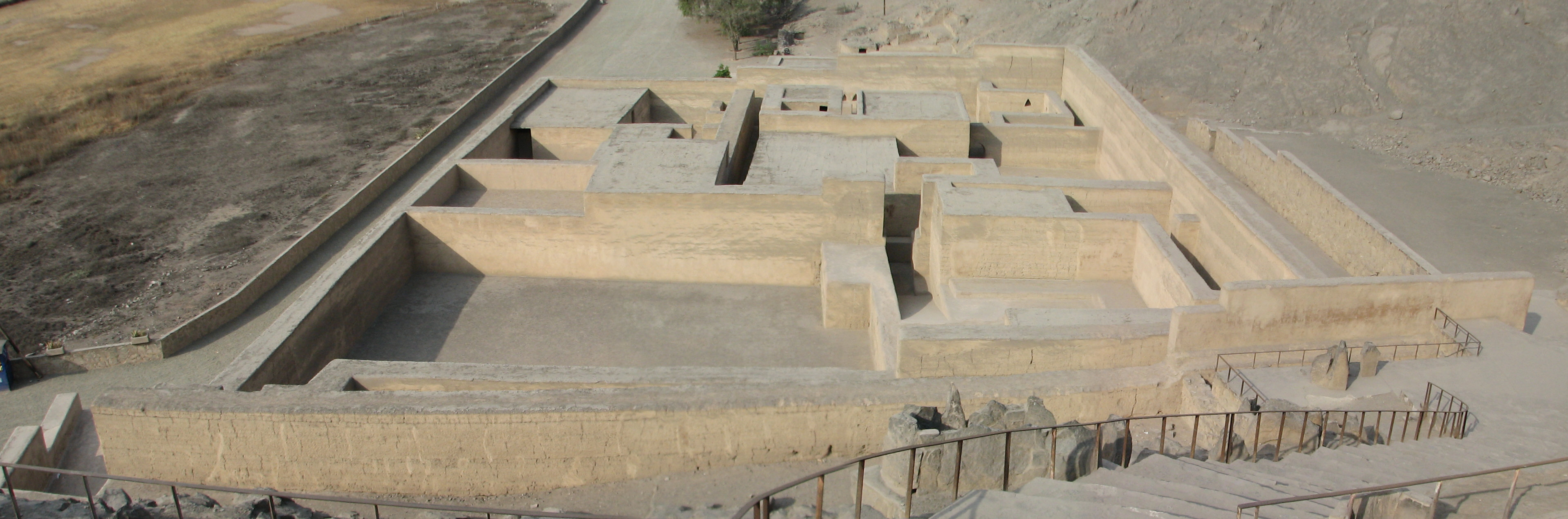 Puruchuco Archaeological site (overview)